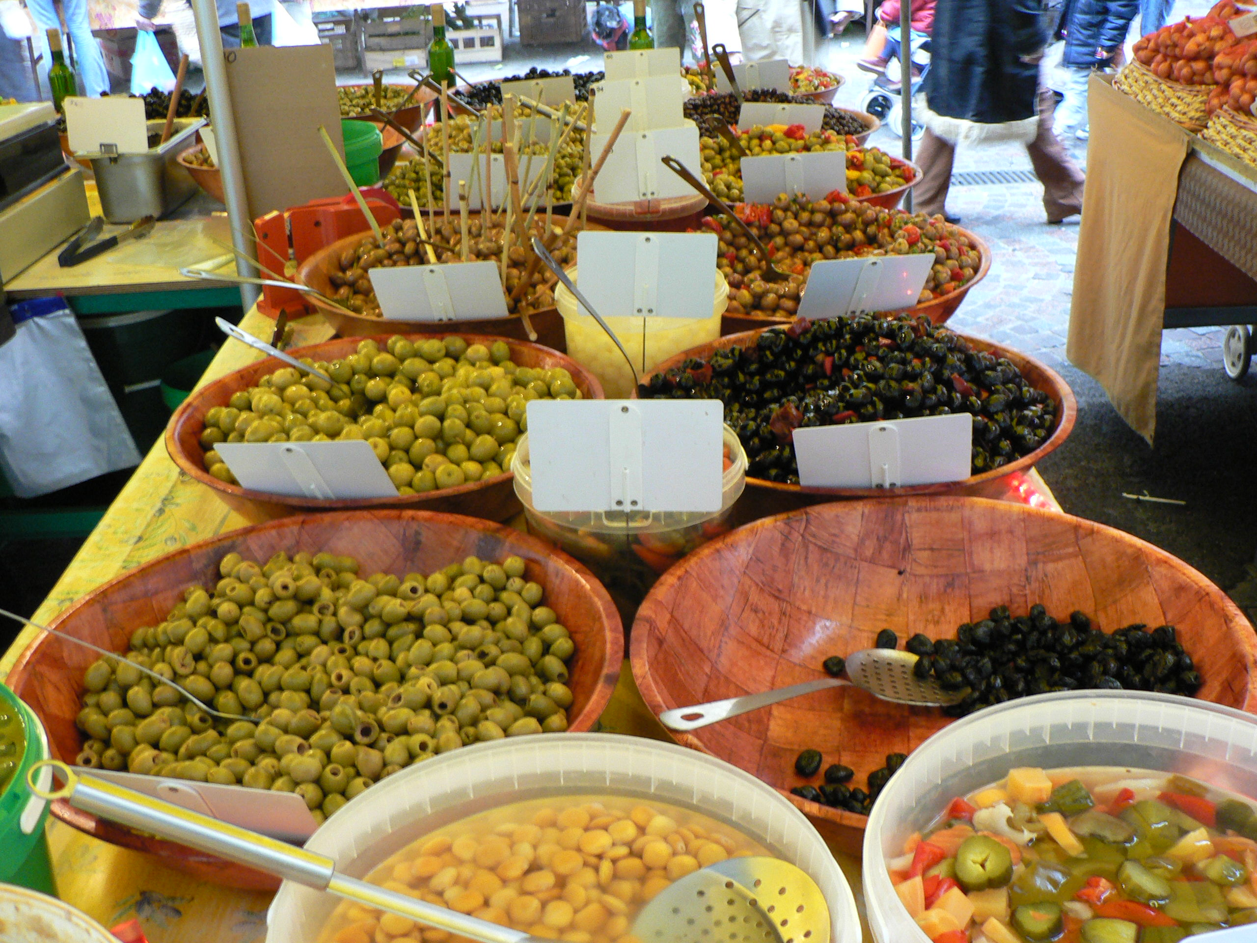 Olives on sale at the farmers' market in Toulon, France